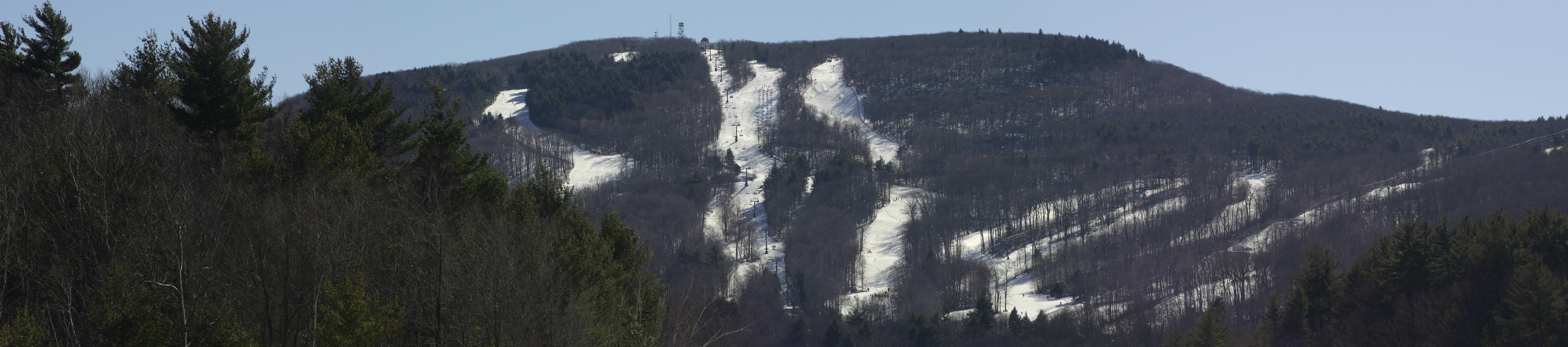 Wachusett Mountain (Massachusetts, USA), in wintertime, as seen from the main gate of the ski resort. This image is a composite of four pictures, composited with hugin and enblend. The pictures were all taken with a Canon Digital Rebel, using a Canon EF 135/2.8 SF lens, ISO 100, f/7.1, 1/800s.